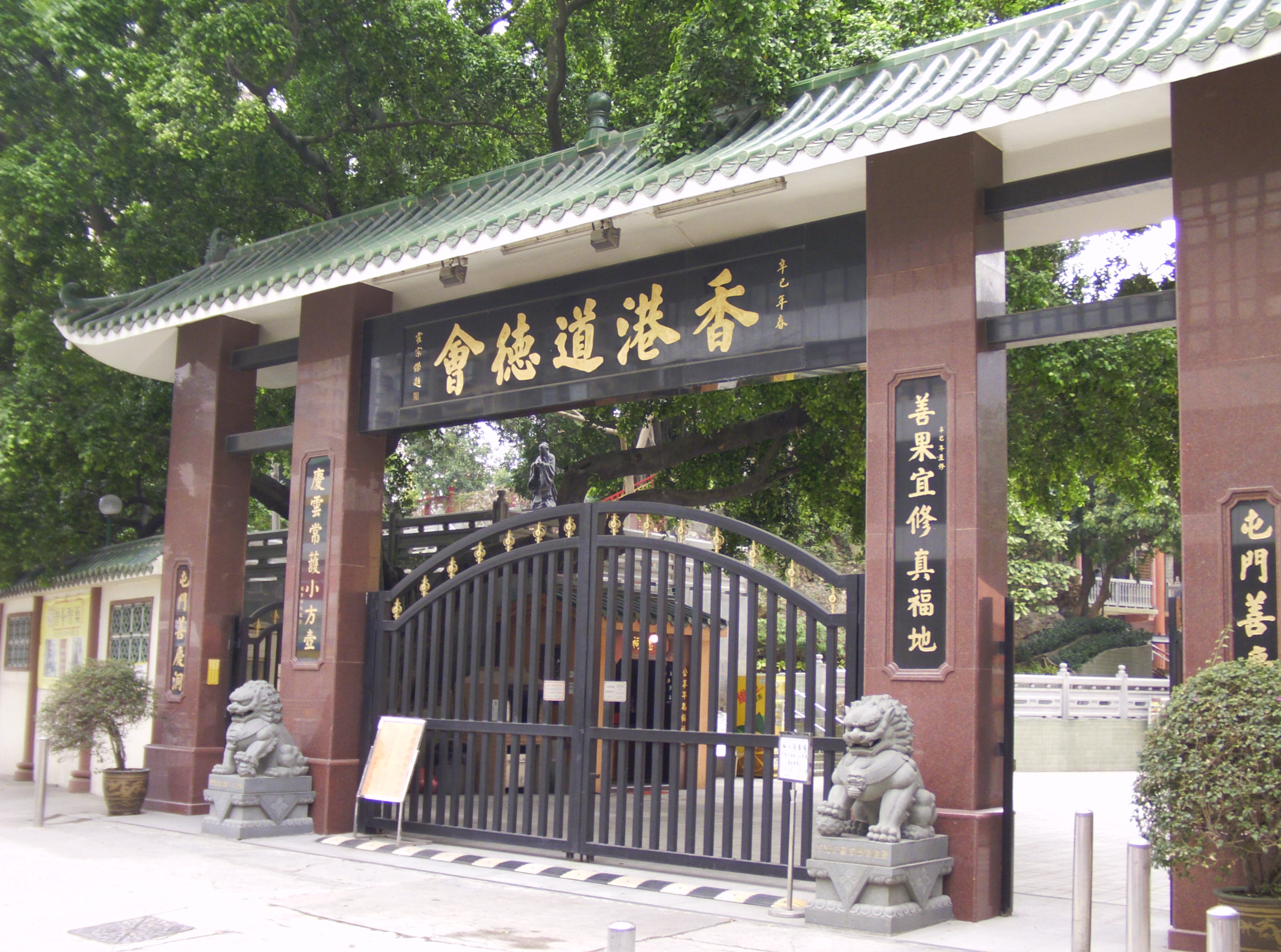 Main_Gate_of_Tuen_Mun_Sin_Hing_Tung 中文（香港）: 香港新界屯門善慶洞大門牌樓